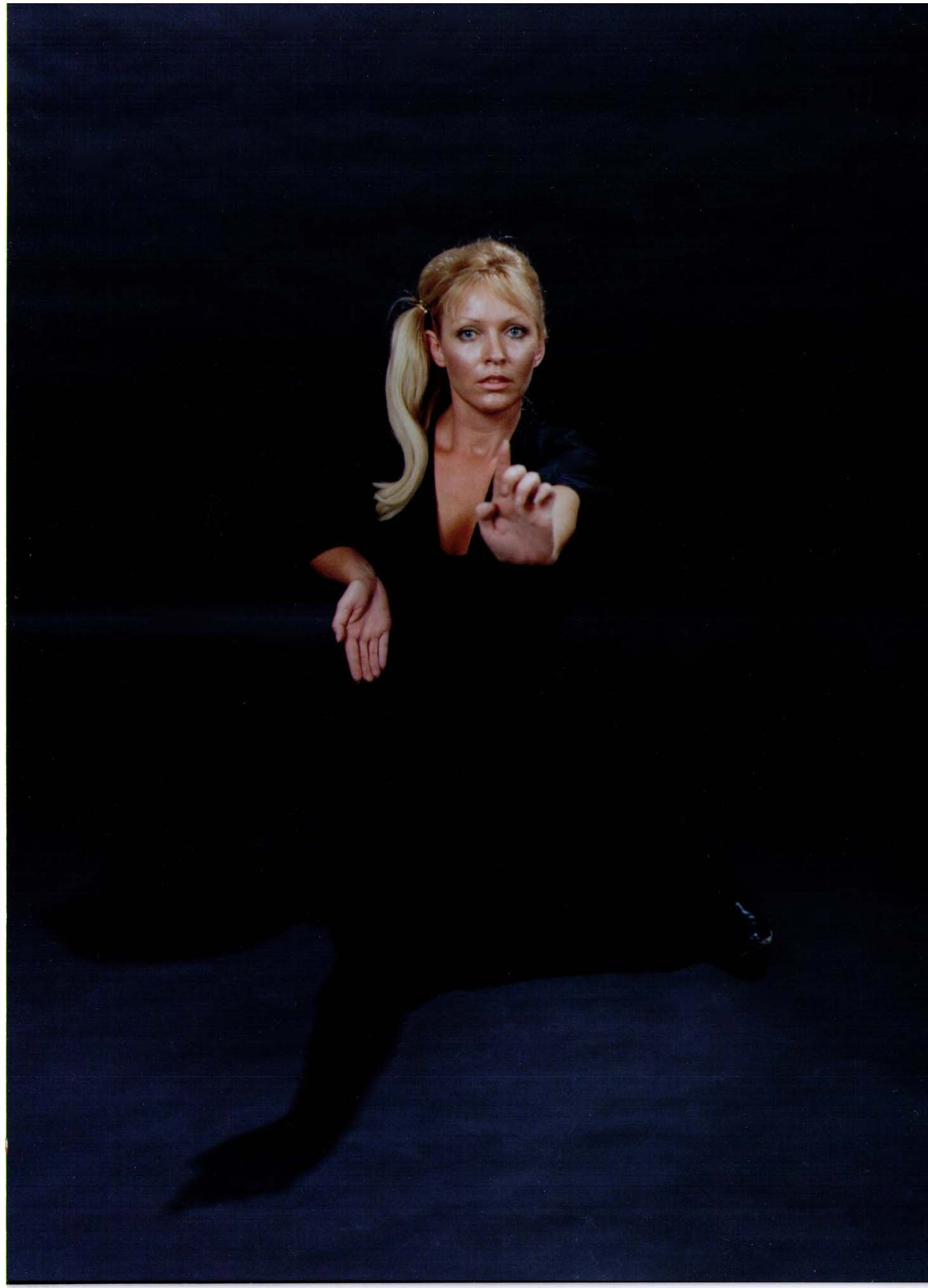 Karyn Turner displaying a kata counter move.